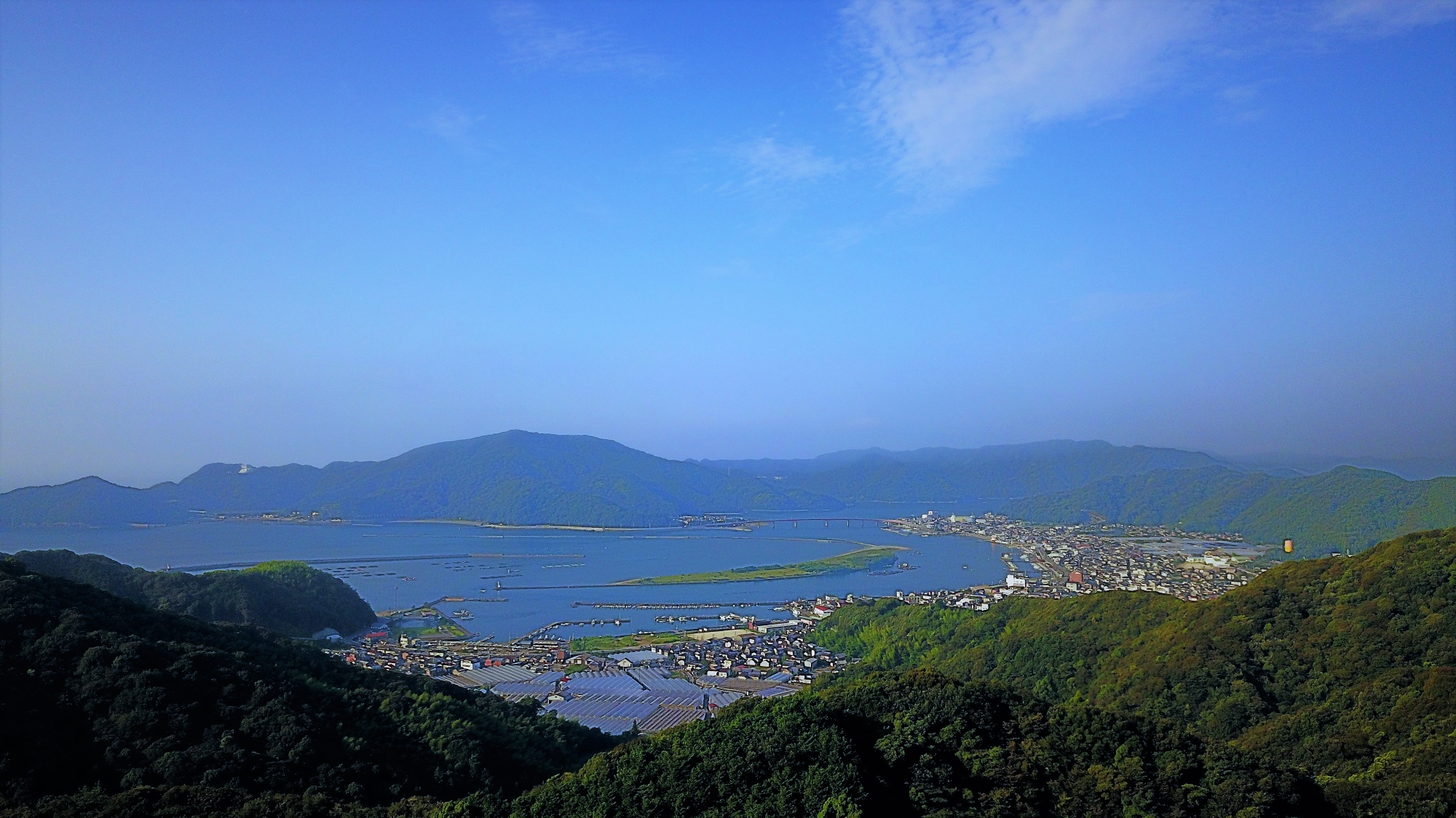 土佐市新居上空から望む土佐市宇佐町空撮映像